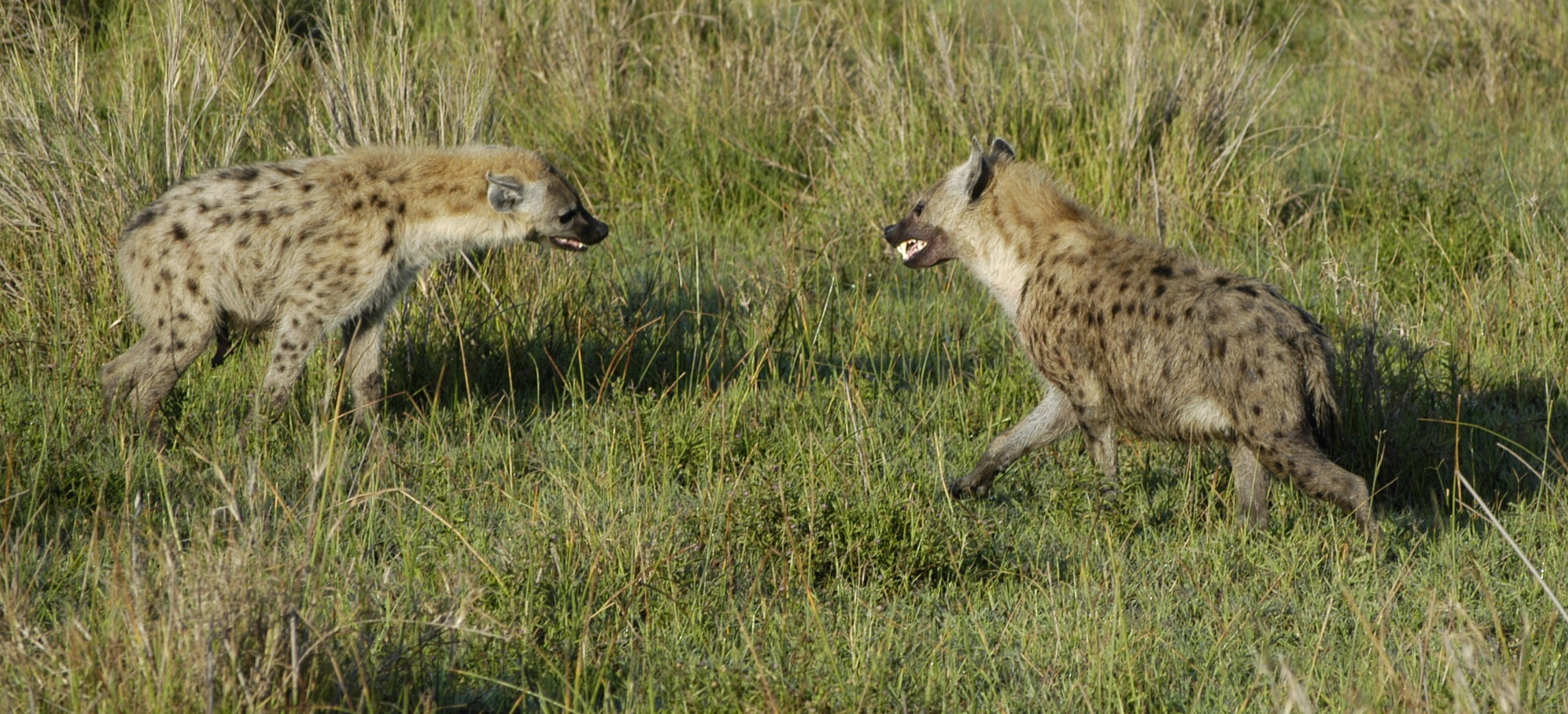 A pair of spotted hyenas interacting aggressively in the Maasai Mara